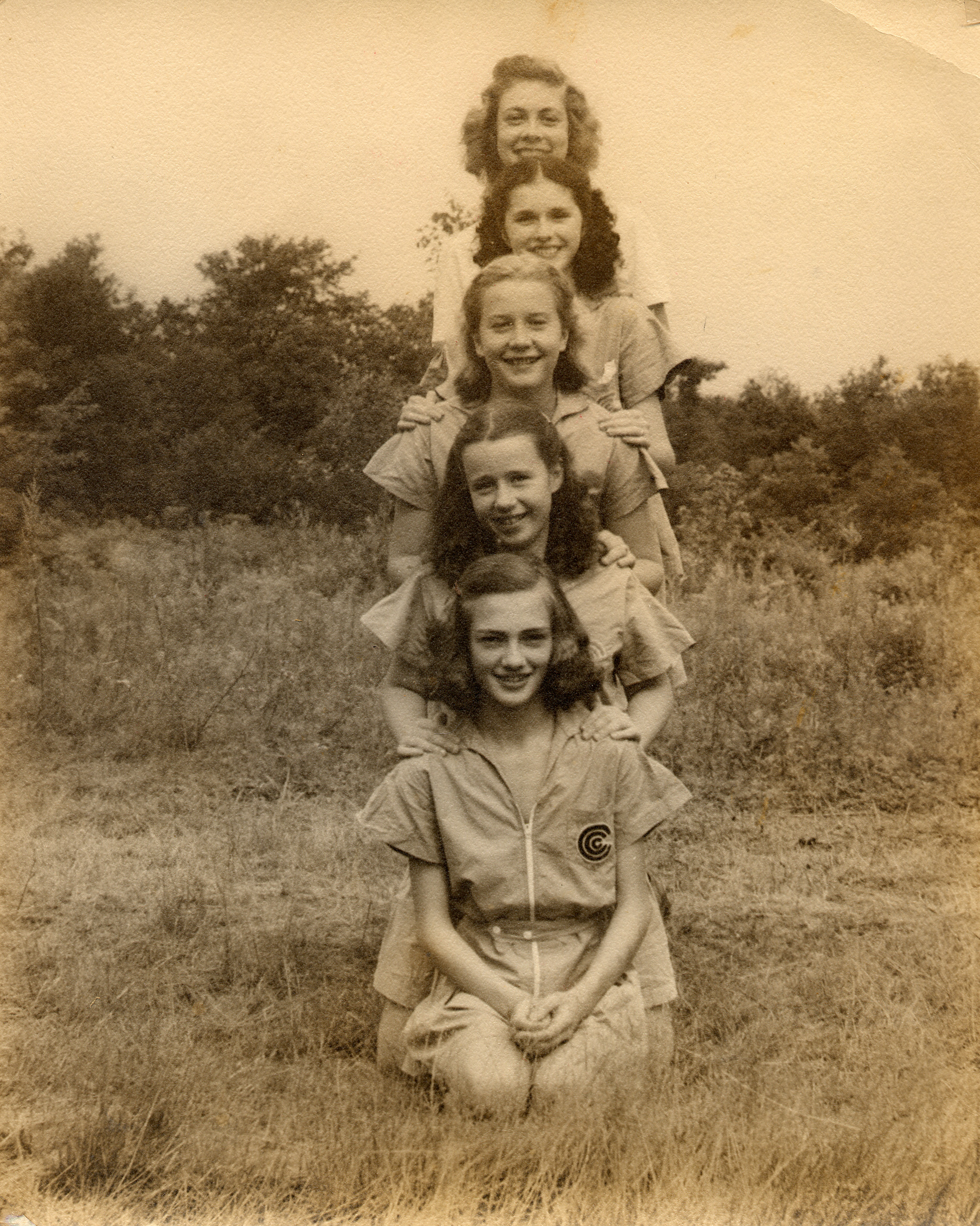 A photo of Chimney Corners campers from the 1930s. Part of the Becket Chimney Corners YMCA